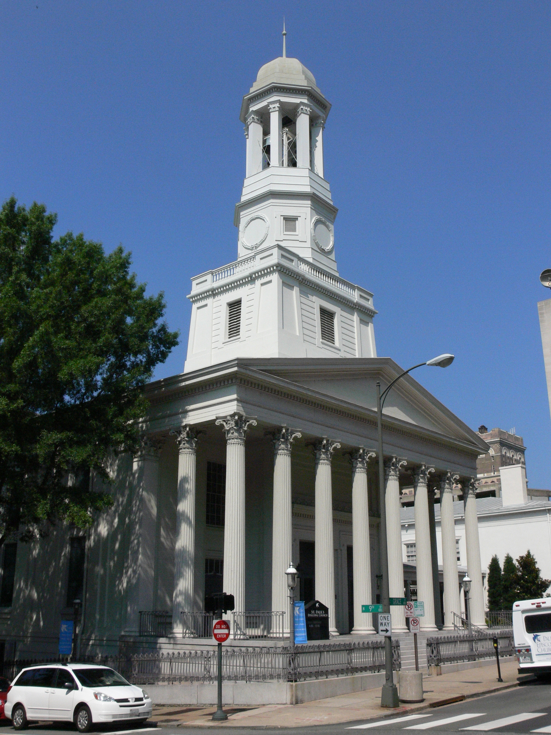 St. Paul's Episcopal Church, adjacent to Capitol Square in Richmond, Virginia; on the National Register of Historic Places